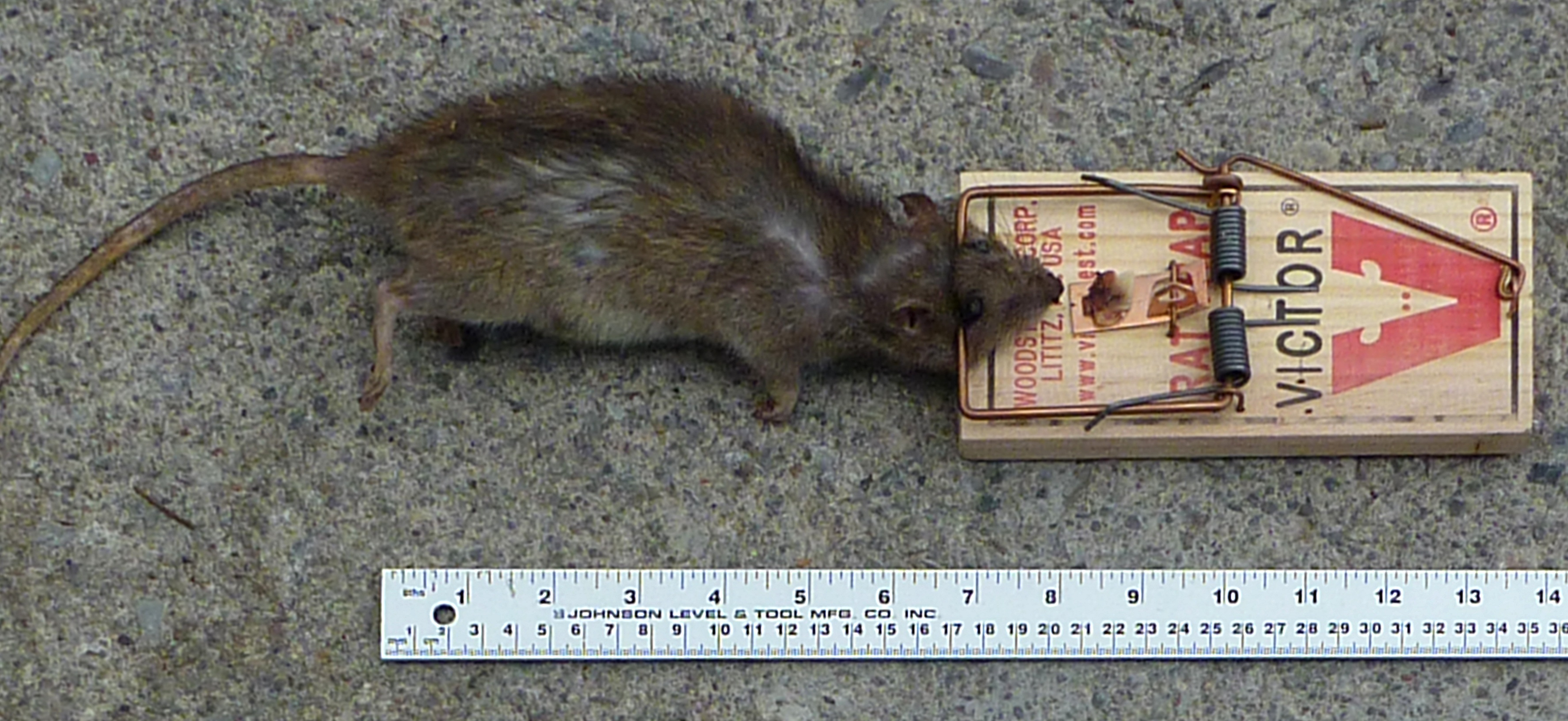 Victor Rat Trap with rat